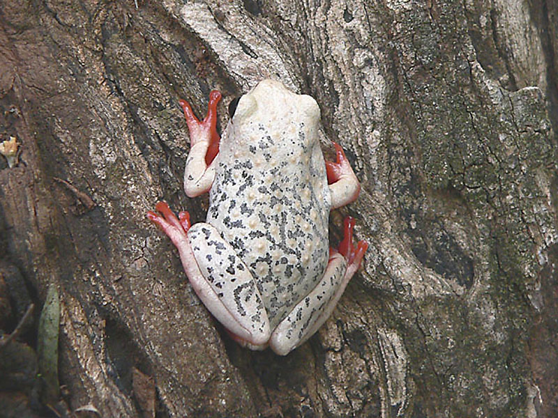 Common reed frog (Hyperolius viridiflavus ssp. pantherinus) photographed in Nanyuki, Kenya